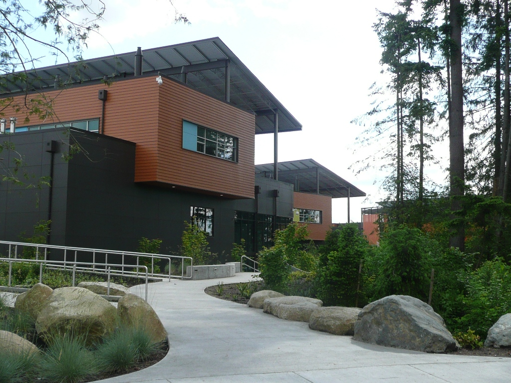 Marysville Getchell Campus - exterior showing 2 of the 4 buildings